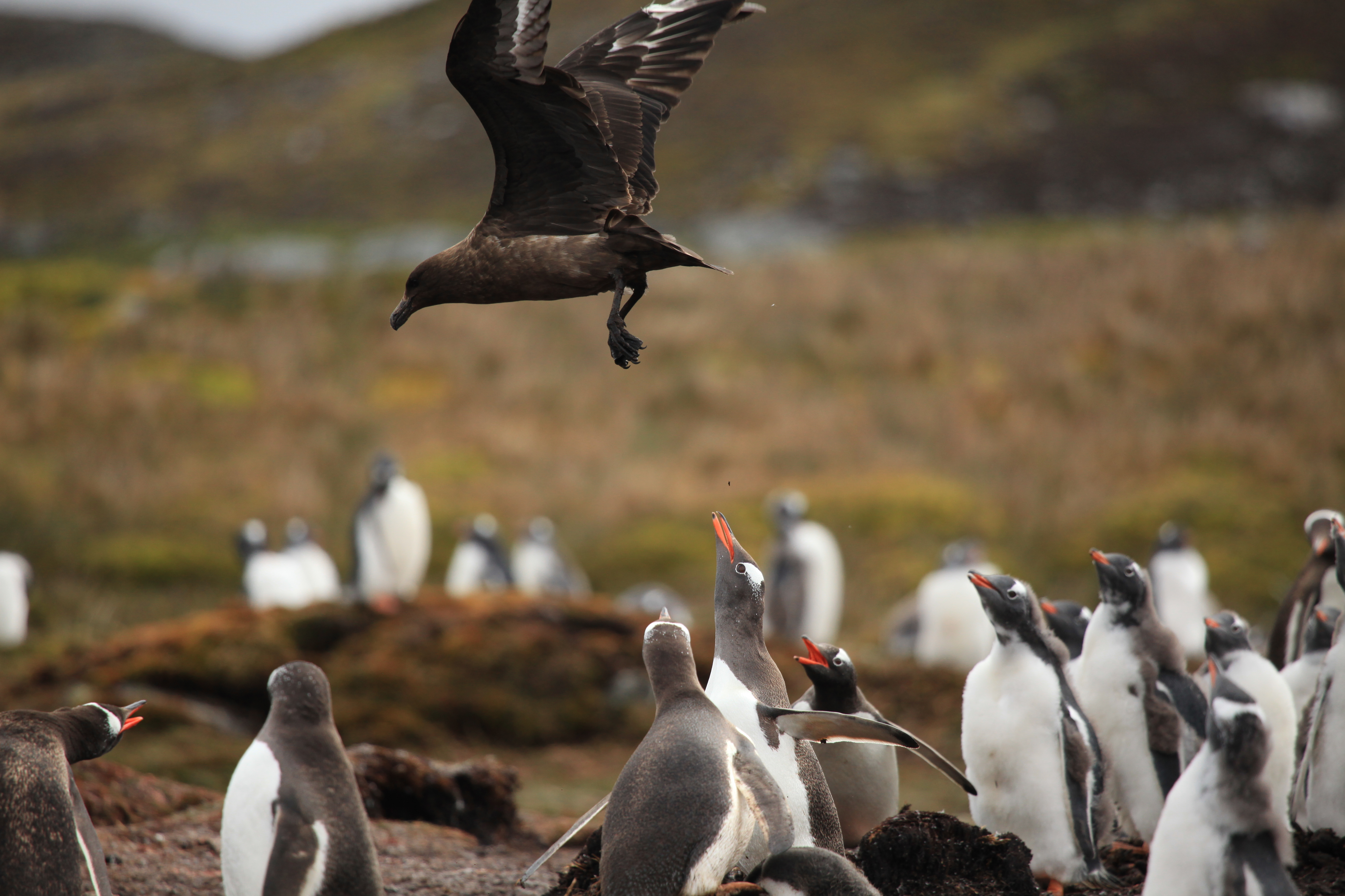 A Brown Skua and Gentoo Penguins at Godthul, South Georgia, British Overseas Territories, UK.